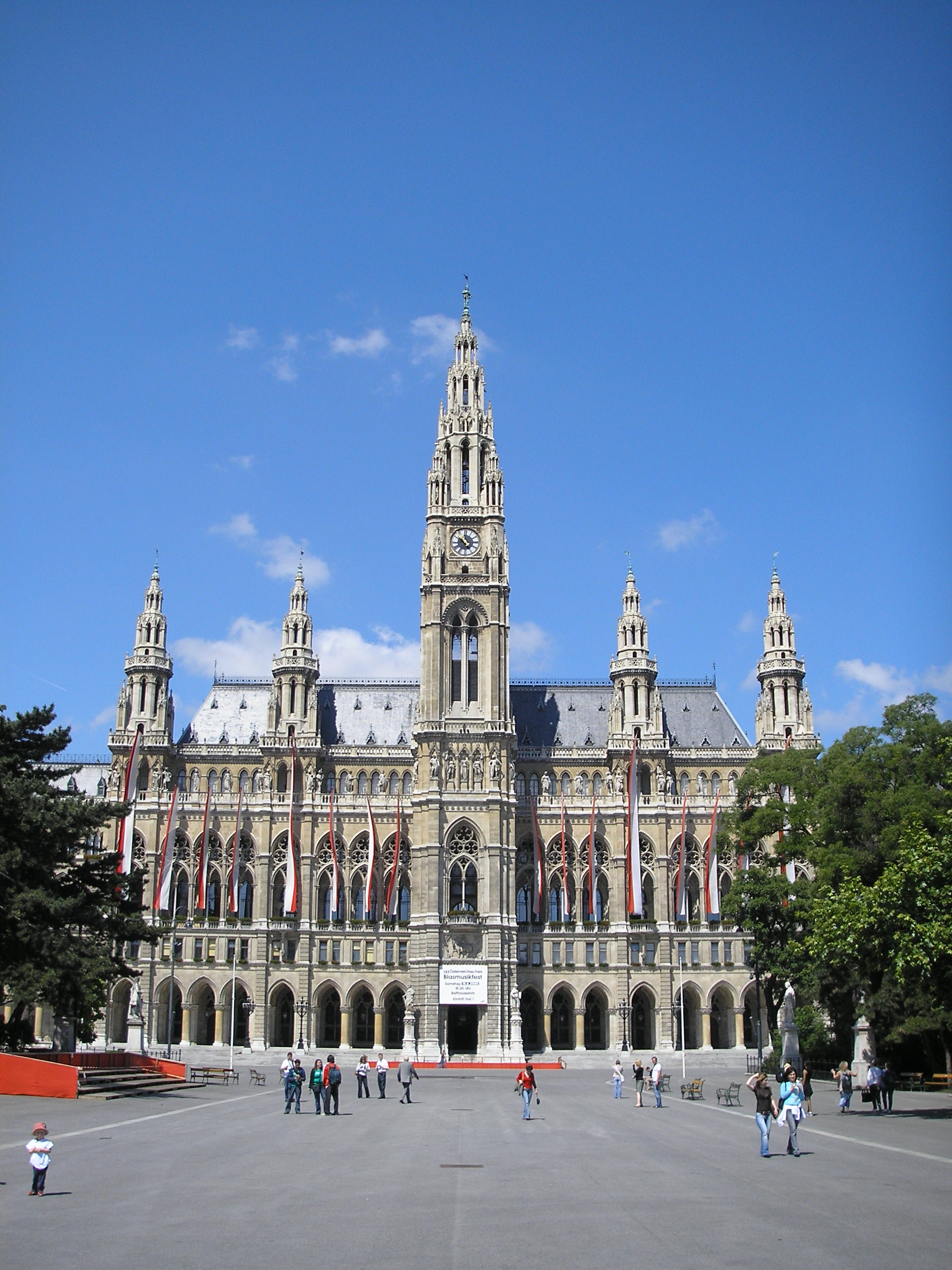 Image of the Rathaus (City hall) in Vienna.